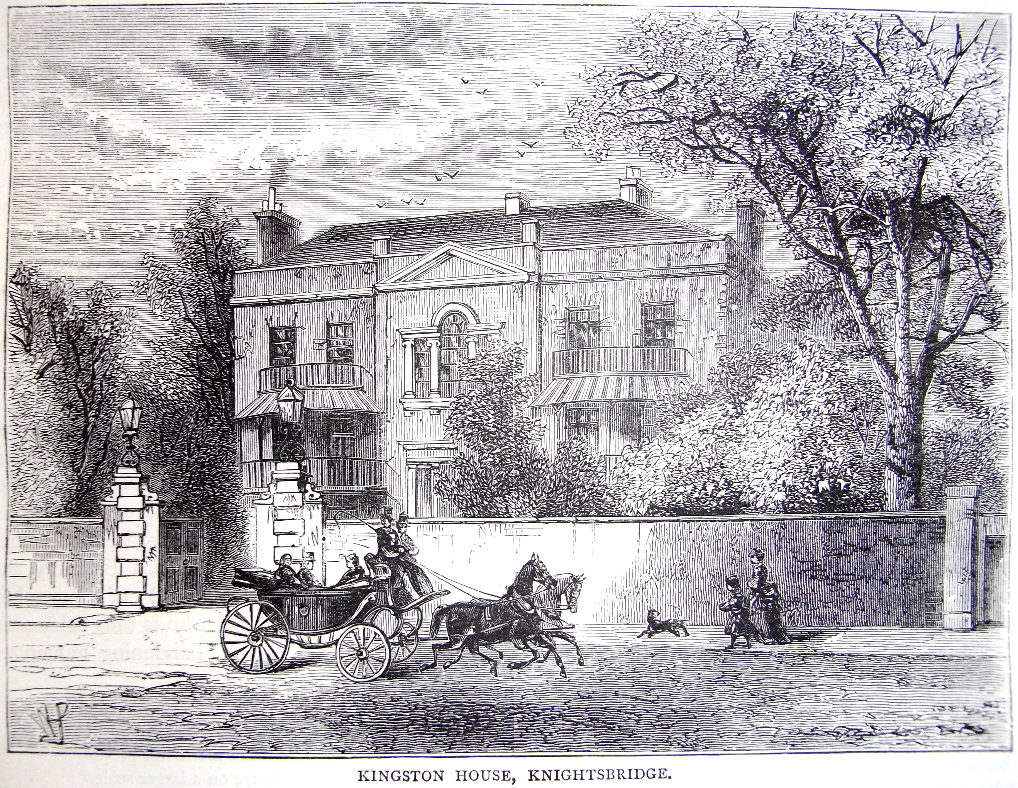 Kingston House, Knightsbridge, City of Westminster, London, circa 1878, published in Walford, Edward, "Old and New London: a Narrative of its History, its People, and its Places", vol. 5, 1878, p.25